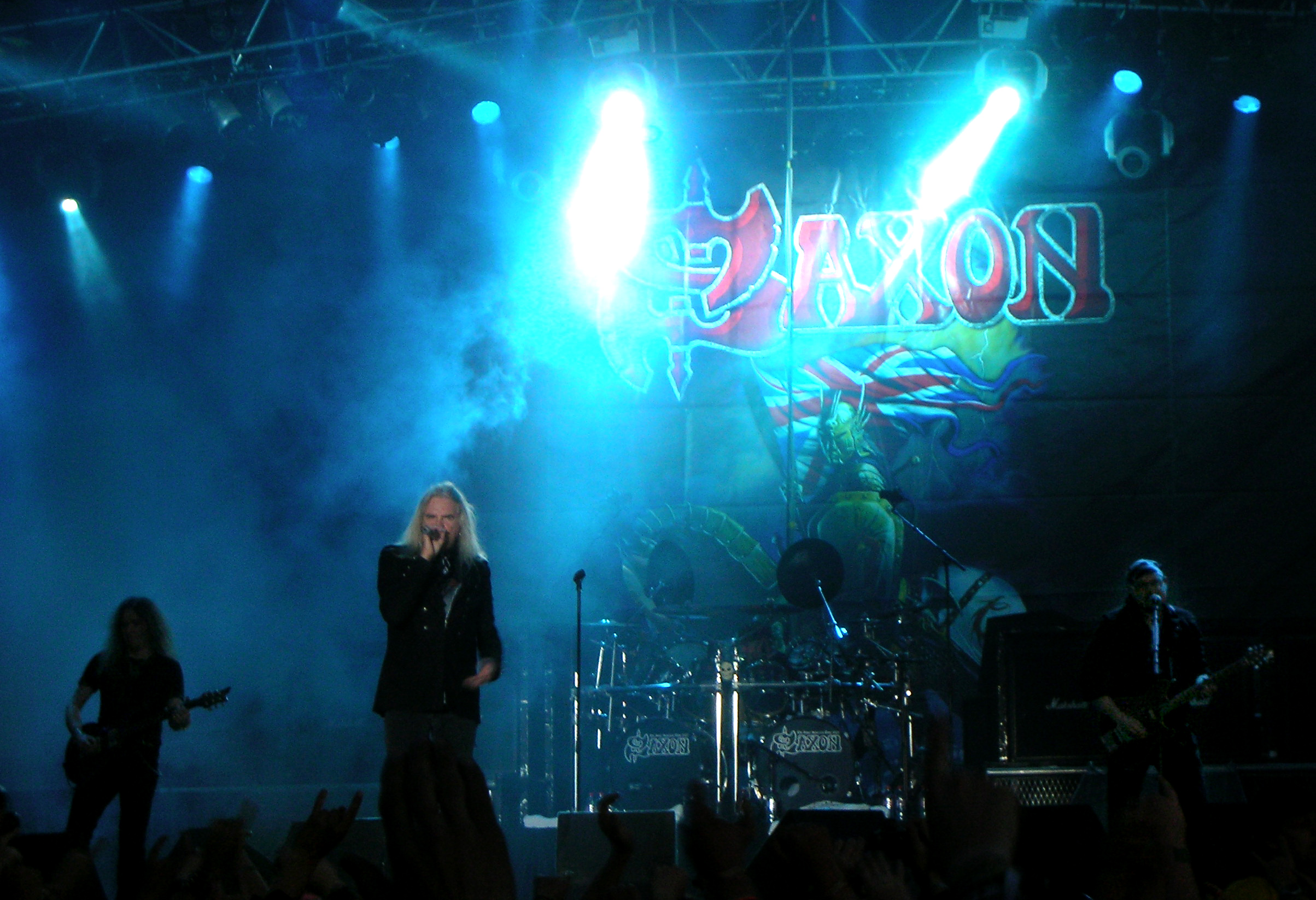 English heavy metal band Saxon performing at the Sweden Rock Festival in 2008.